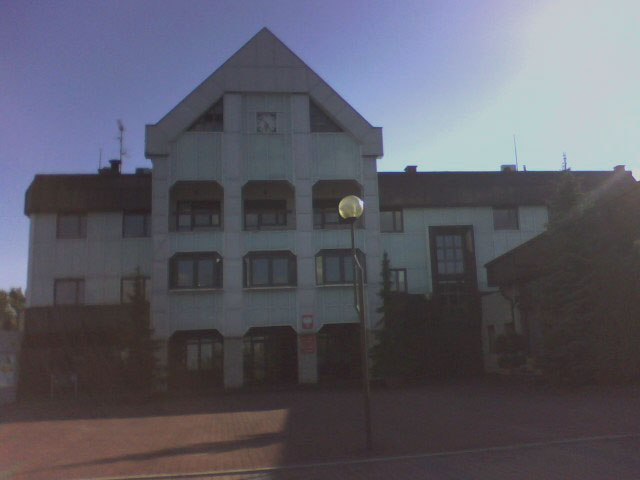 Urząd gminy w Kleszczowie